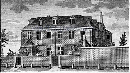 Stepney Meeting House in 1783, when Samuel Brewer was the preacher there